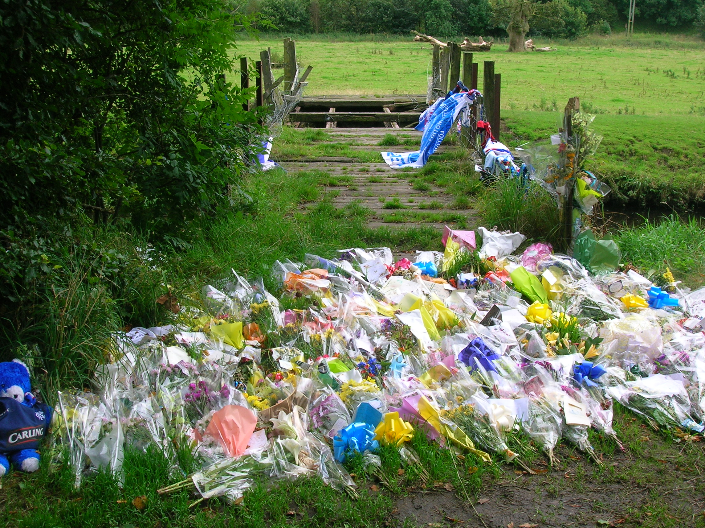 The memorial to a boy, Dean McGregor, drowned in the Annick Water in August 2007. Stewarton. East Ayrshire. Scotland.